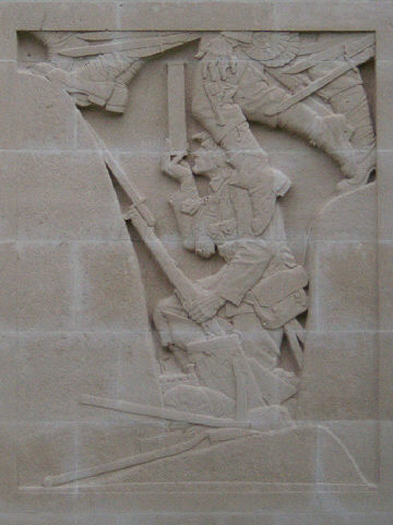 Stone reliefs by the sculptor Charles Sargeant Jagger on the Cambrai Monument at Louverval, France